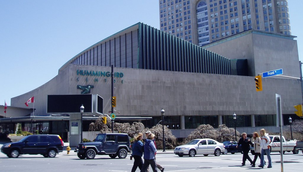 Sony Centre for the Performing Arts